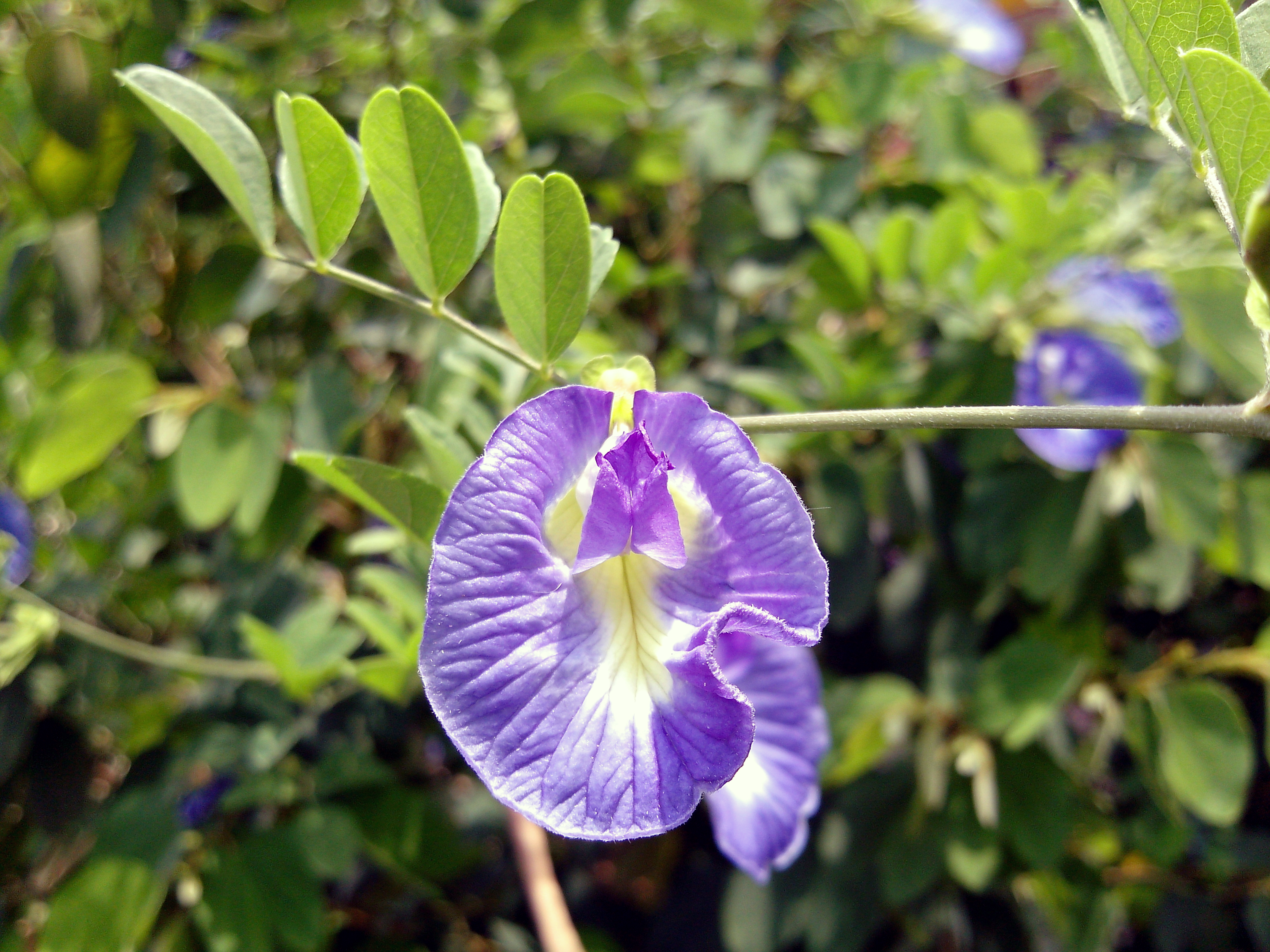 Clitoria ternatea of Salem.